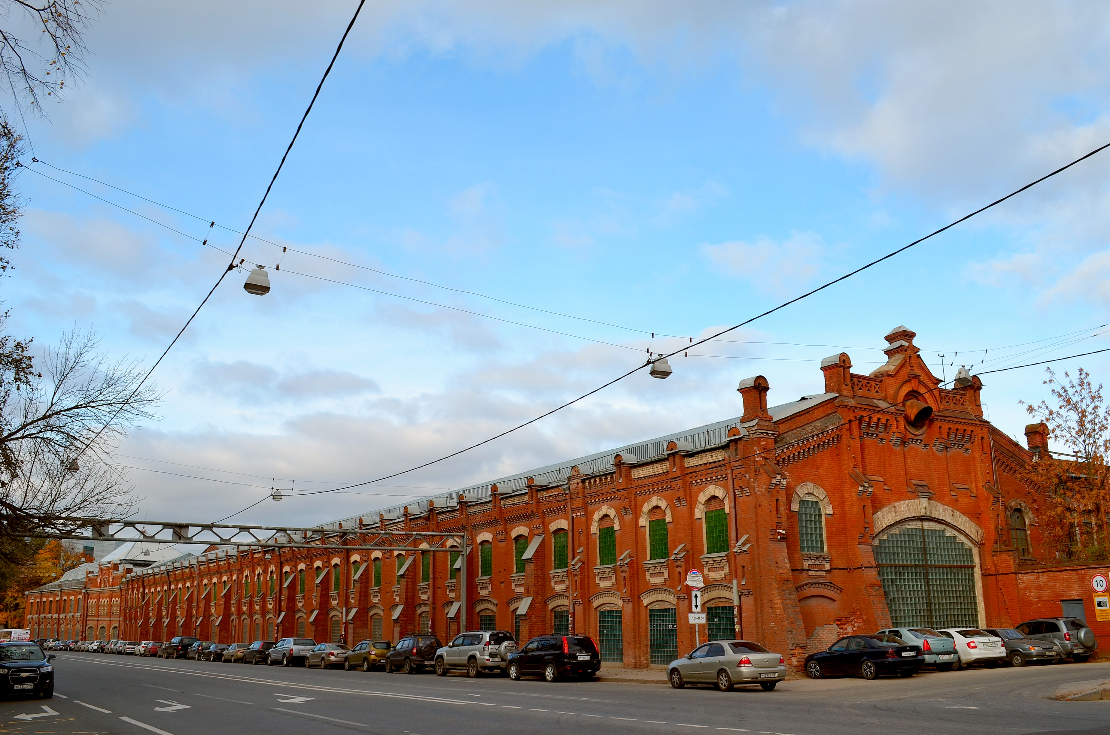 Gunsmith's workshop of the Obukhov Steel Plant: Obukhovskoy Oborony Avenue, 120 letters AE 1, AE 2, AE 3, AE 7, AM 1, AM 4, AM 5, O 1. Nevsky district, St. Petersburg